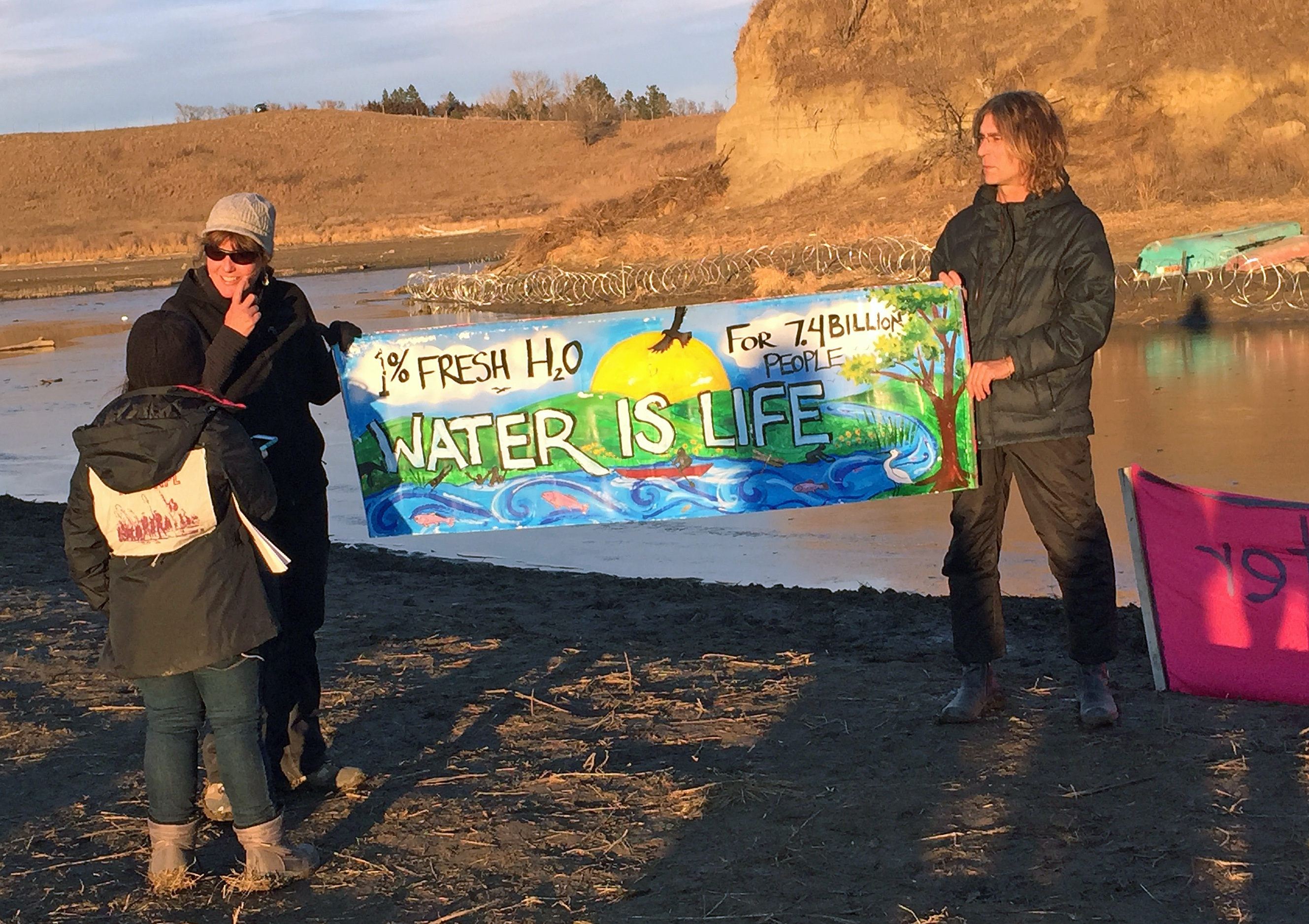 Banner displayed near Turtle Mountain Standing Rock, Dakota Access Pipeline protests